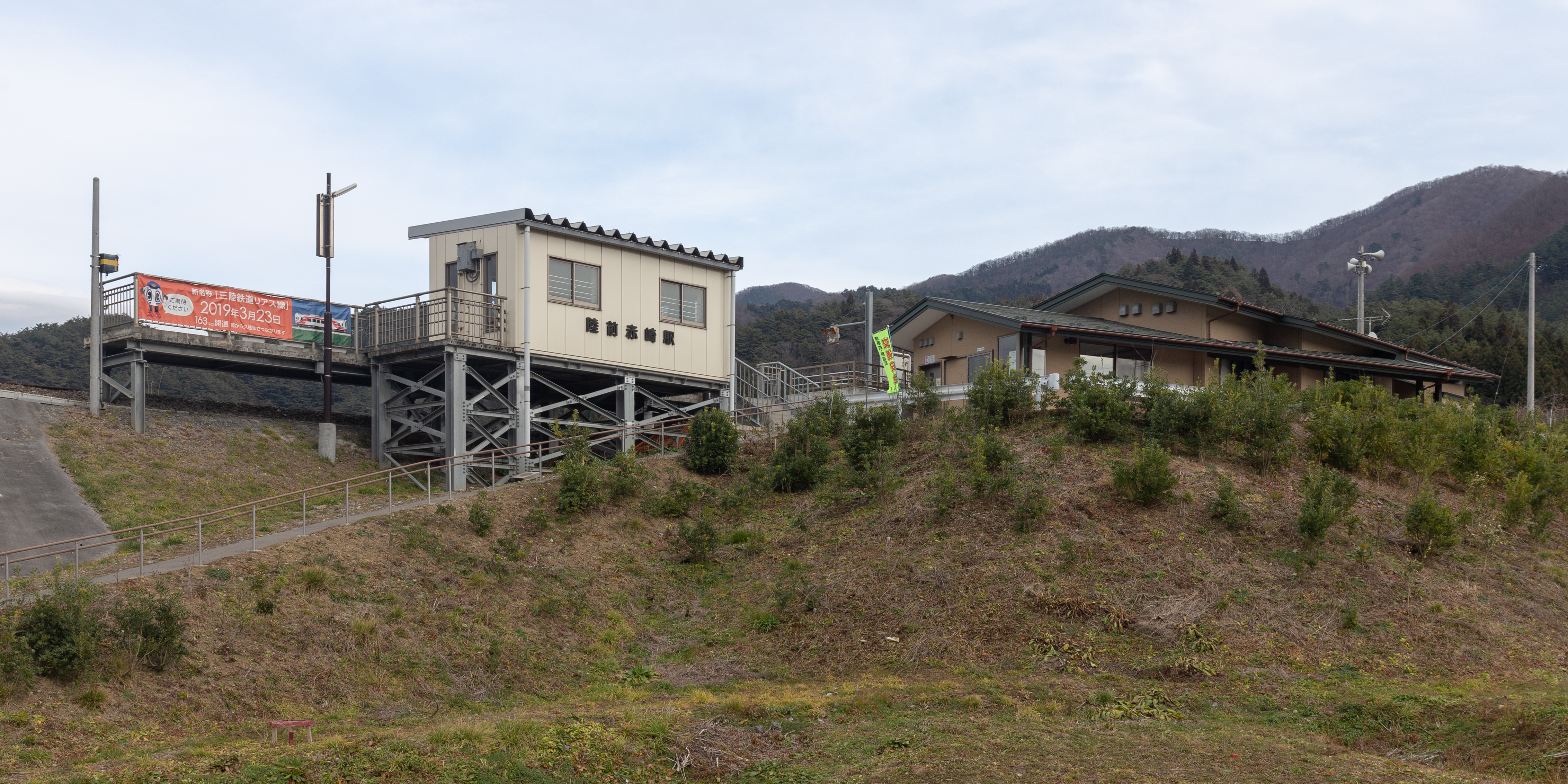 Sanriku Railway Rikuzen-Akasaki Station in Ofunato City, Iwate Prefecture, Japan